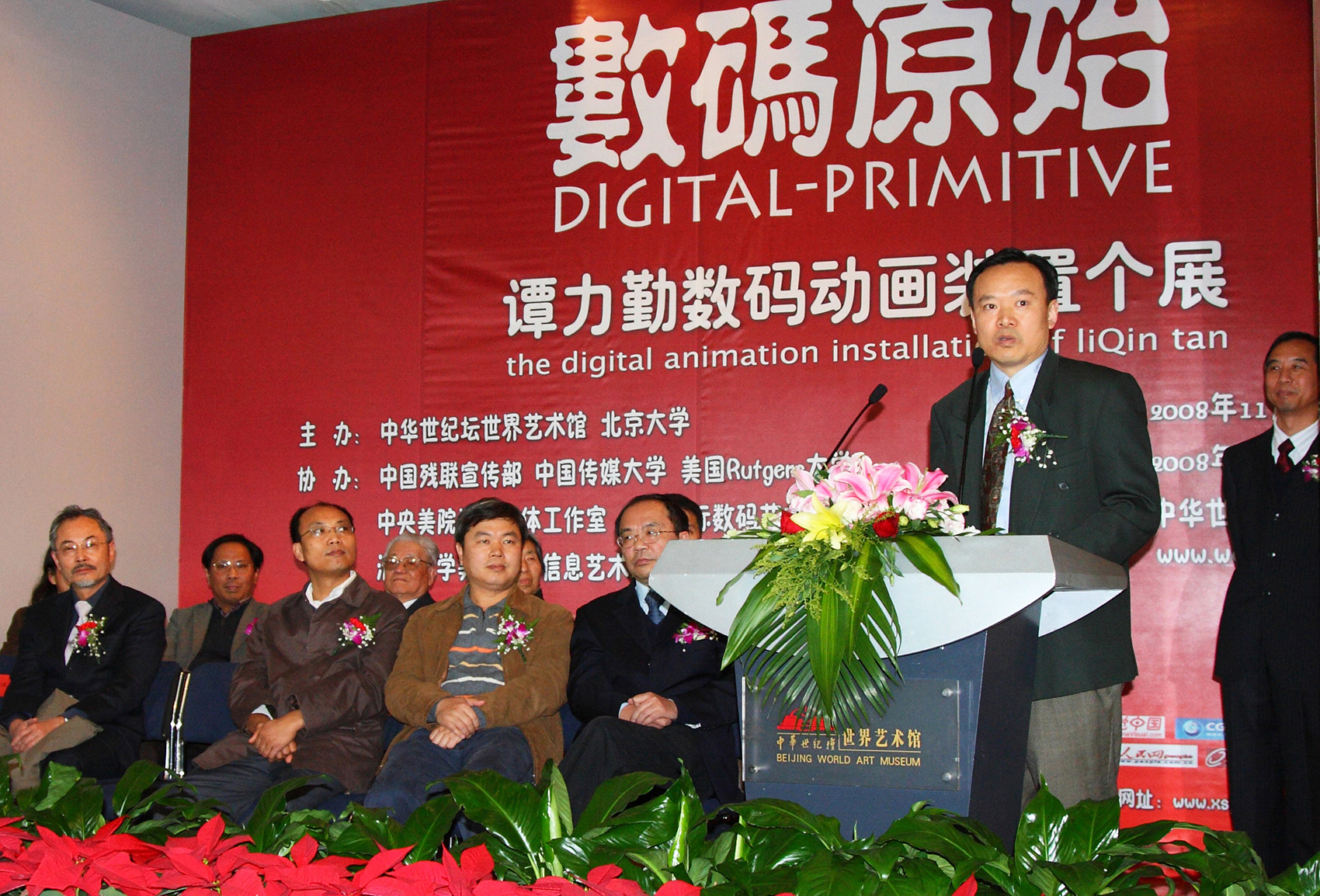 Solo Show at Beijing World Art Museum, 2008